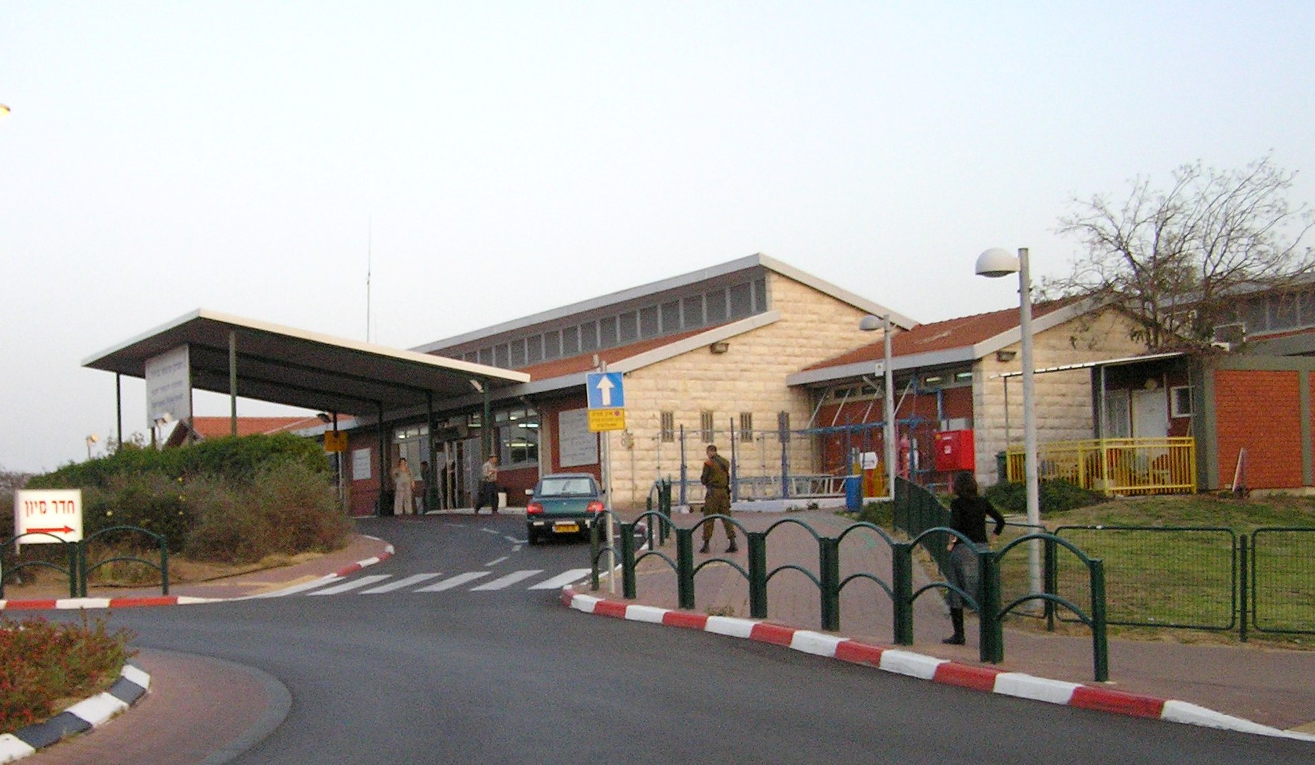 Barzilai Hospital, Ashkelon - emergency room